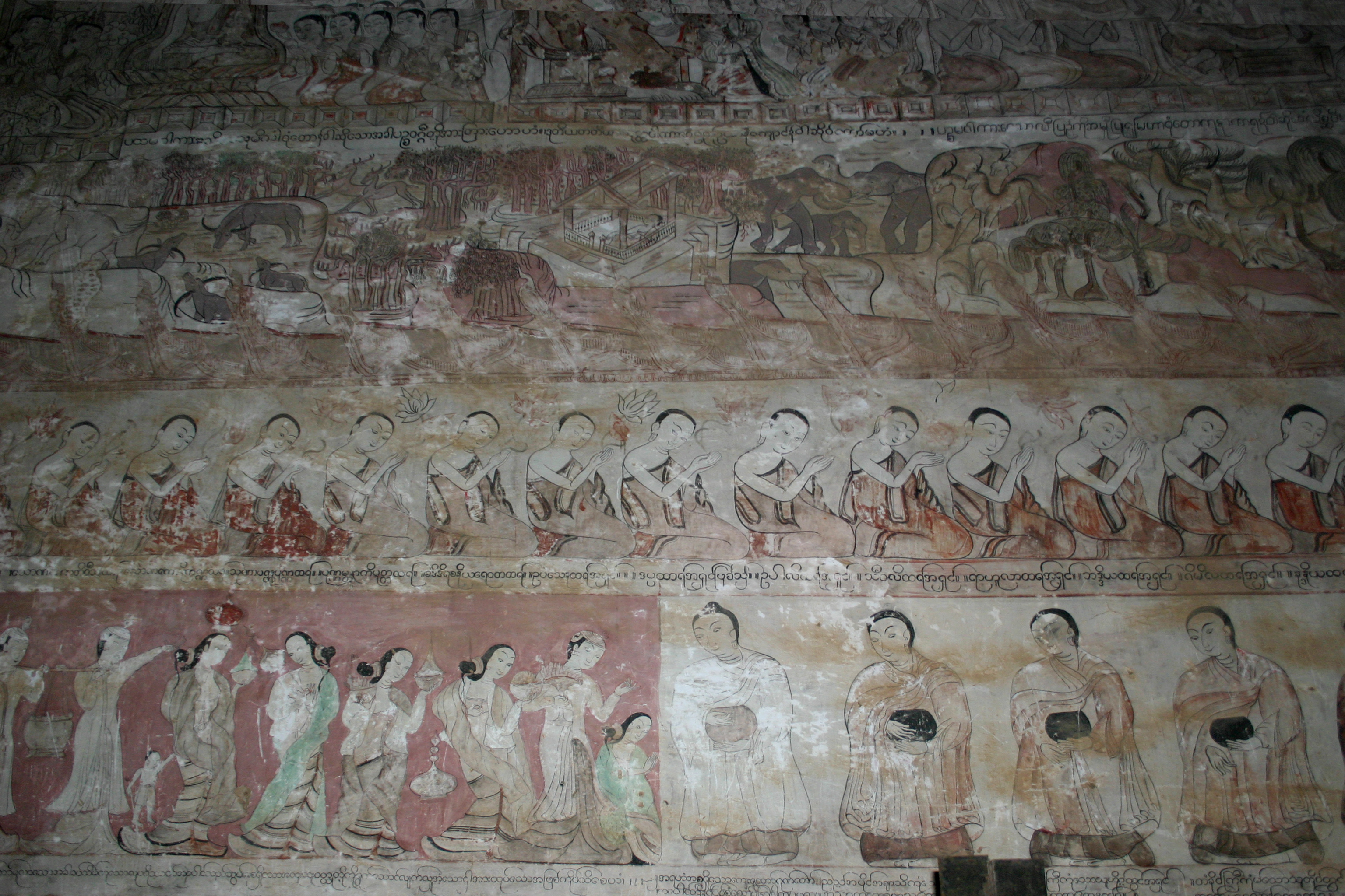 Sulamani temple, Bagan, Myanmar.